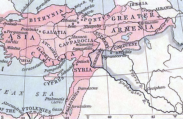 The Growth of Roman Power in Asia Minor III (As organized by Pompey 63 BC)[1]